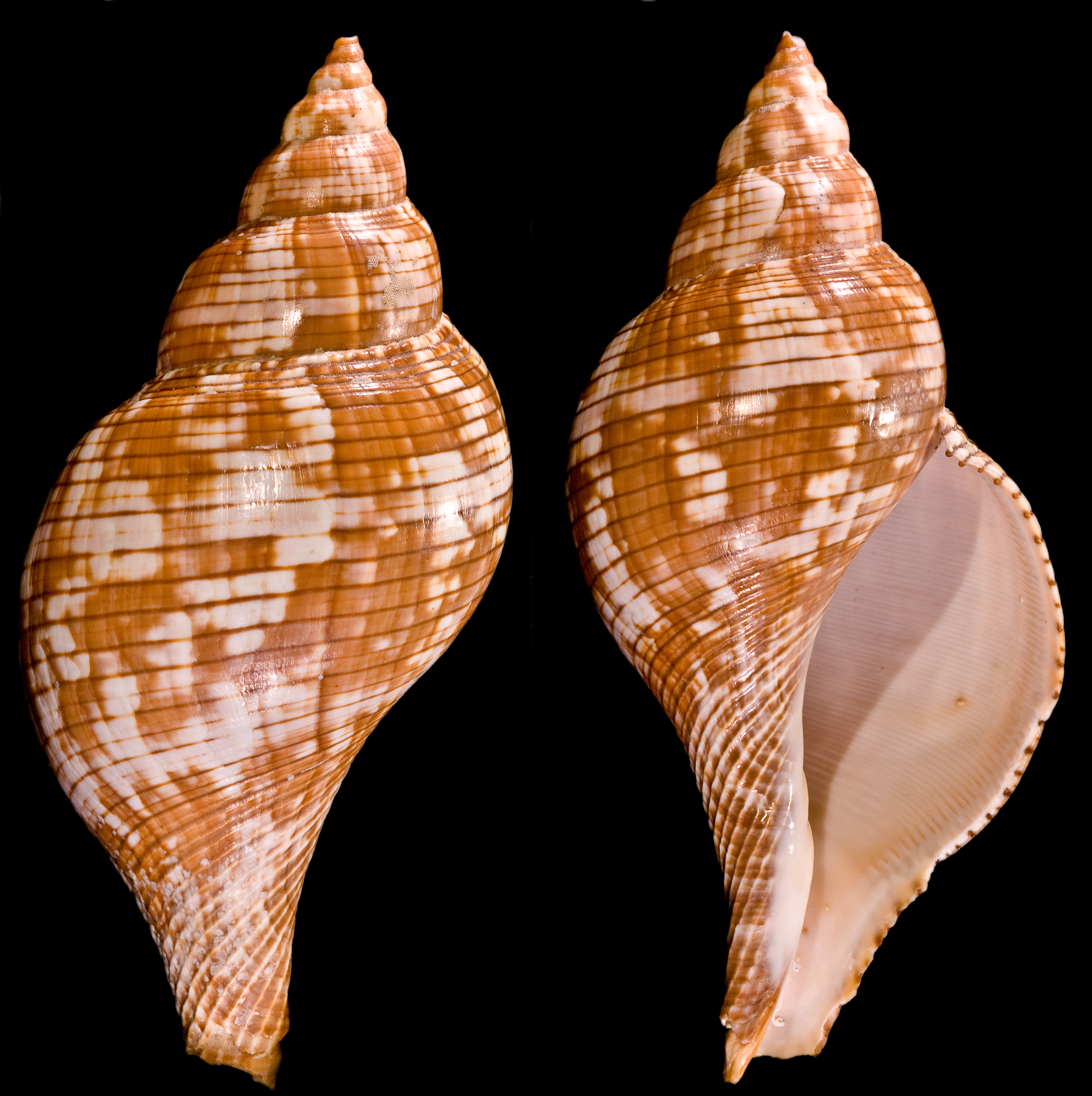 Abapertural (left) and apertural view of the shell of Fasciolaria tulipa. Height of the shell is 15 cm.